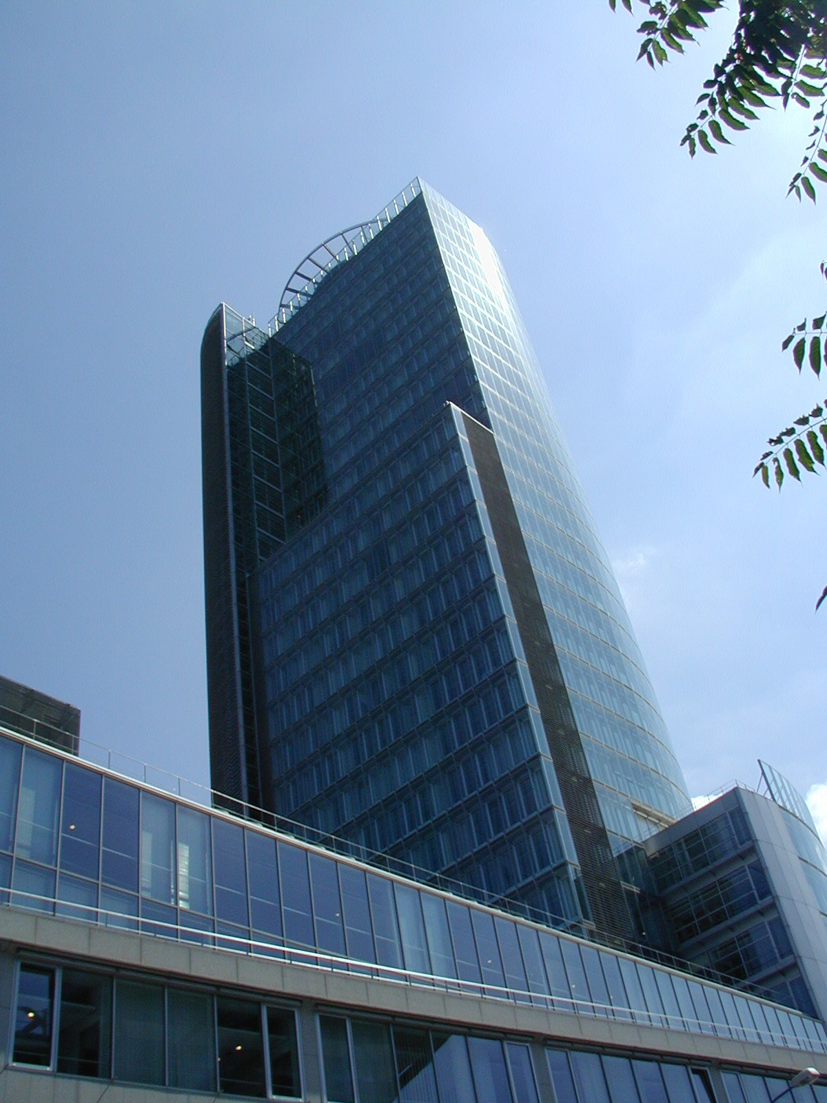 Slovakia, Bratislava - Central Bank Building (National Bank of Slovakia)